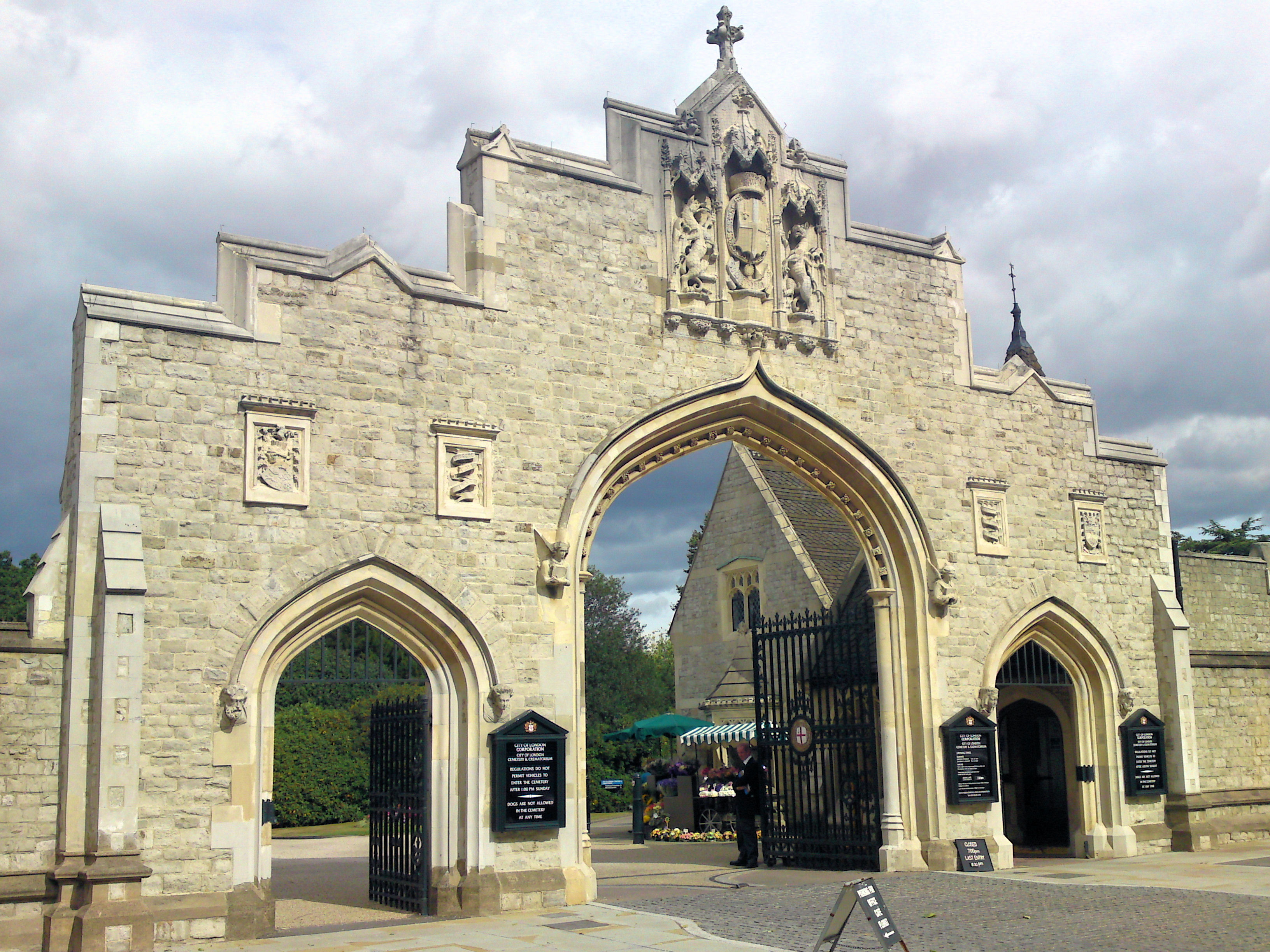 The main entrance gate to the City of London Cemetary in Manor Park, London.